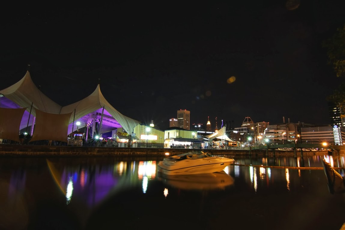 View of Pier Six Concert Pavilion from an adjacent pier.